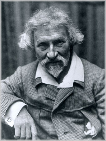 Ilya Efimovich Repin (1841-1930) Protruding Russian artist Ilya Efimovich Repin was born in 1844 in a Chuguev in family of the retired soldier. Initial skills of painting has received from чугуевских icon painters. In 1863 has acted in the Petersburg Academy of arts and in 1871 has finished it. Was teacher, the professor - the head of a workshop and the rector (1898-1899 г.г.) Academies of arts, at the same time taught at school-workshop Tenishevoj; among its disciples. M. Kustodiev, I.E.Grabar, etc. gave also private lessons of Century to V.A.Serov. The author of such famous pictures: "Barge haulers on Volga", "Ivan Groznyj and its son Ivan", as well as portraits of Item of A.Strepetovoj, N.I.Pirogova, I.N.Kramskogo, I.S.Turgeneva. Photographer's studio "Rentz and Schrader" St.-Petersburg, Morskaya str., 30